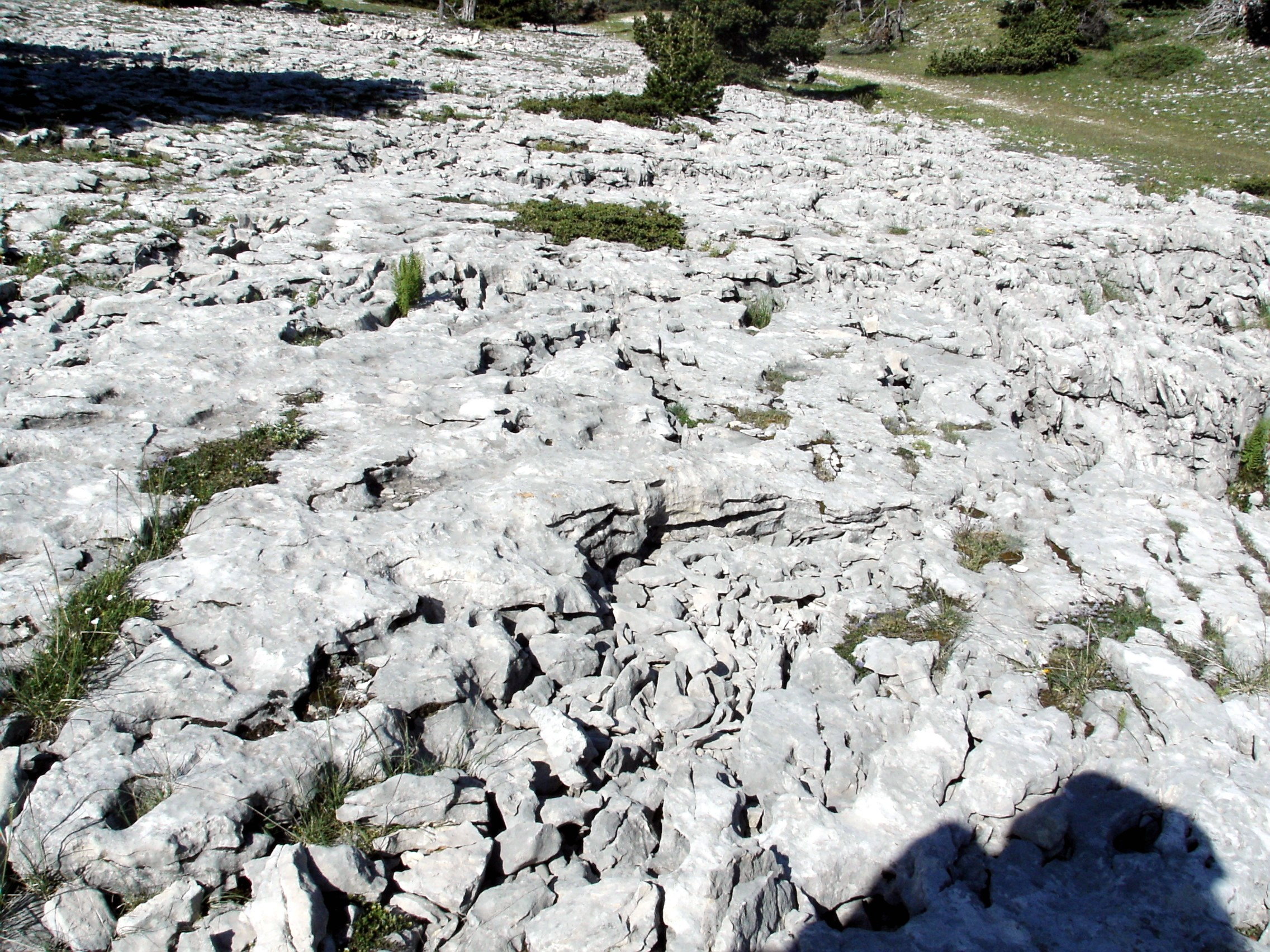 Lapiaz (limestone pavement) on the Hauts Plateaux du Vercors, France.